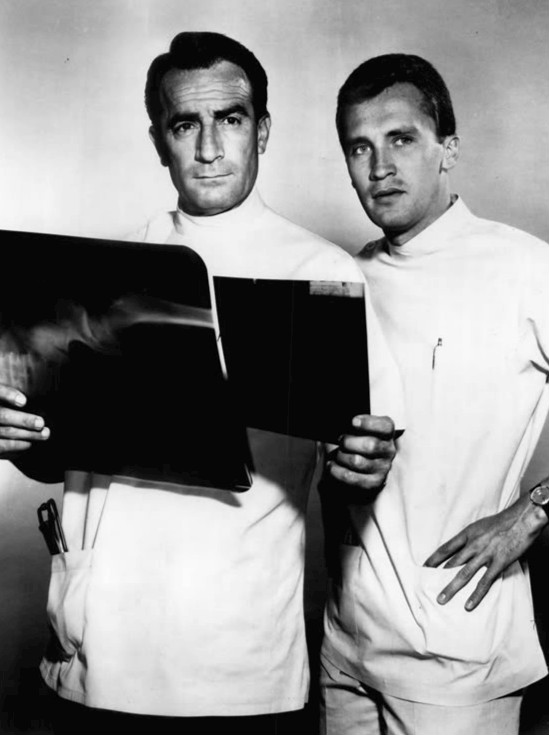 Photo of John Beradino as Steve Hardy and Roy Thinnes as Phil Brewer from the daytime drama General Hospital.